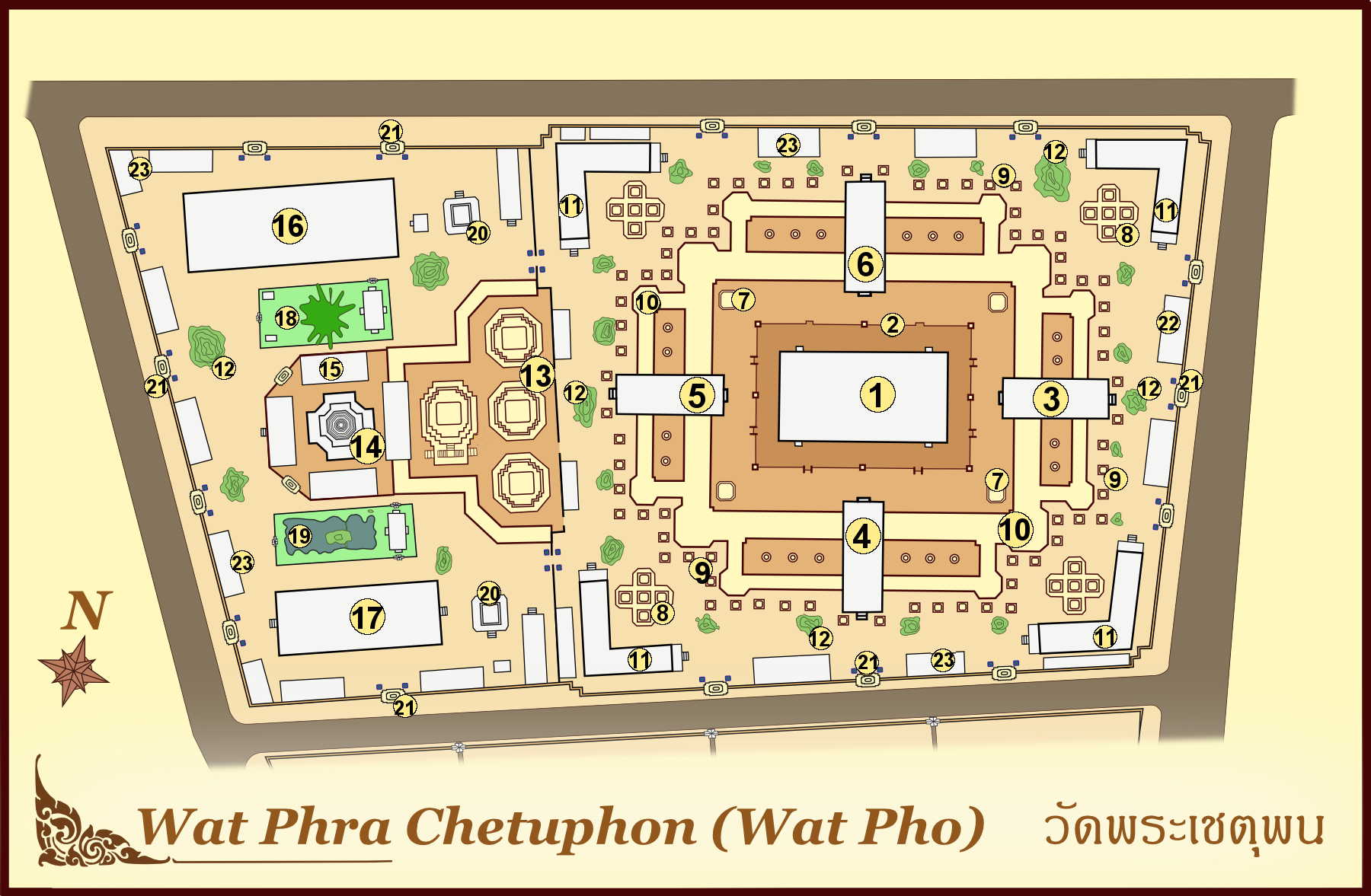 Map of Wat Po, Bangkok, Thailand